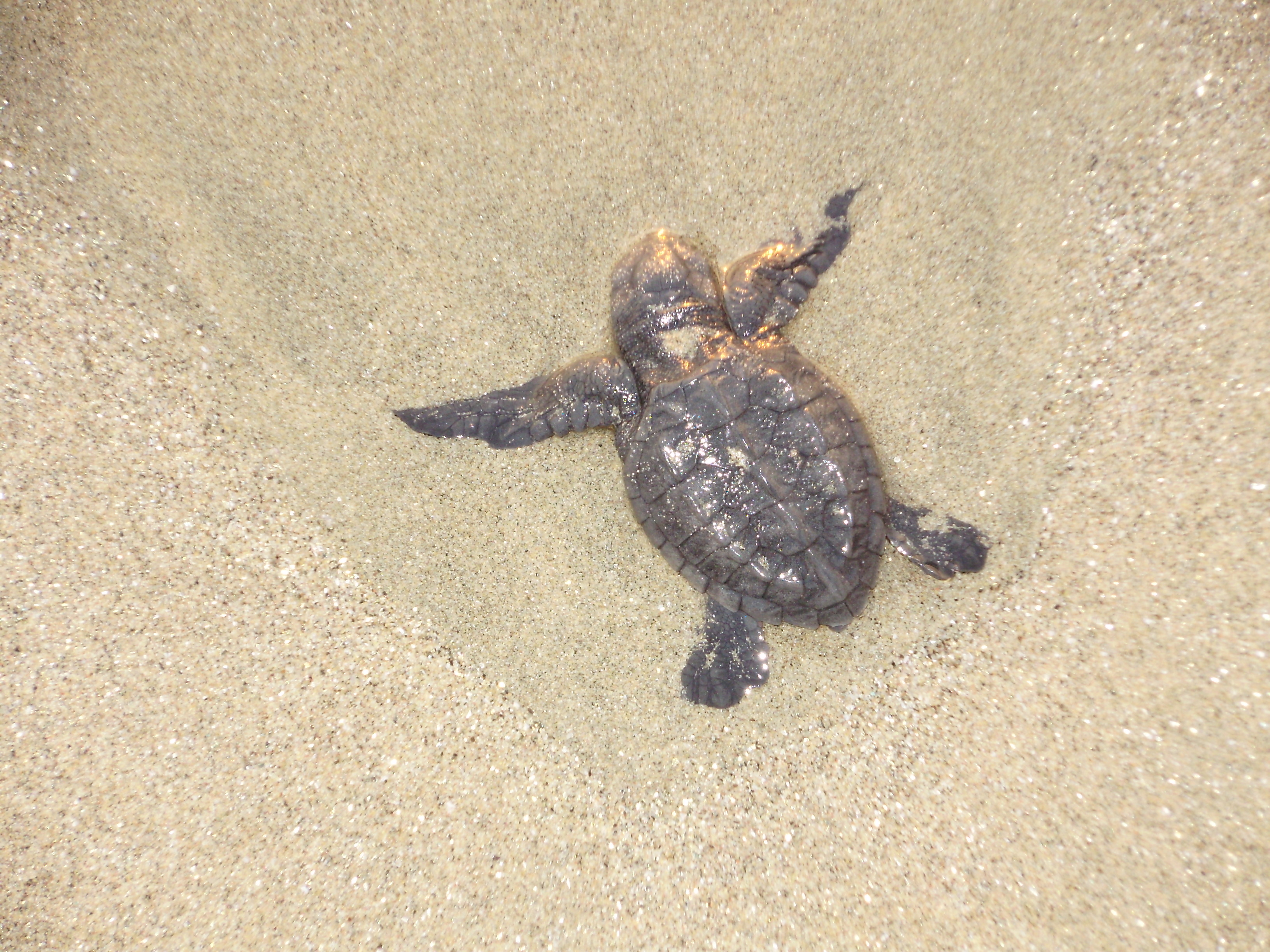 A young Olive Ridley turtle (Lepidochelys olivacea) in the sand in Puerto Vallarta.